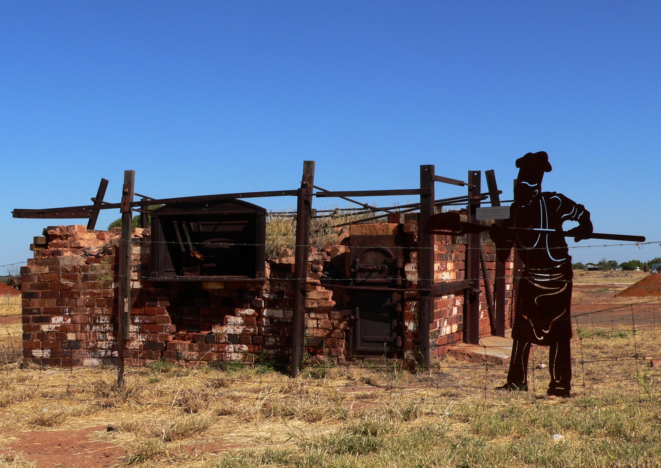 The old bakers oven. Bakers oven with a metal cutout figure putting in a loaf, Menzies.